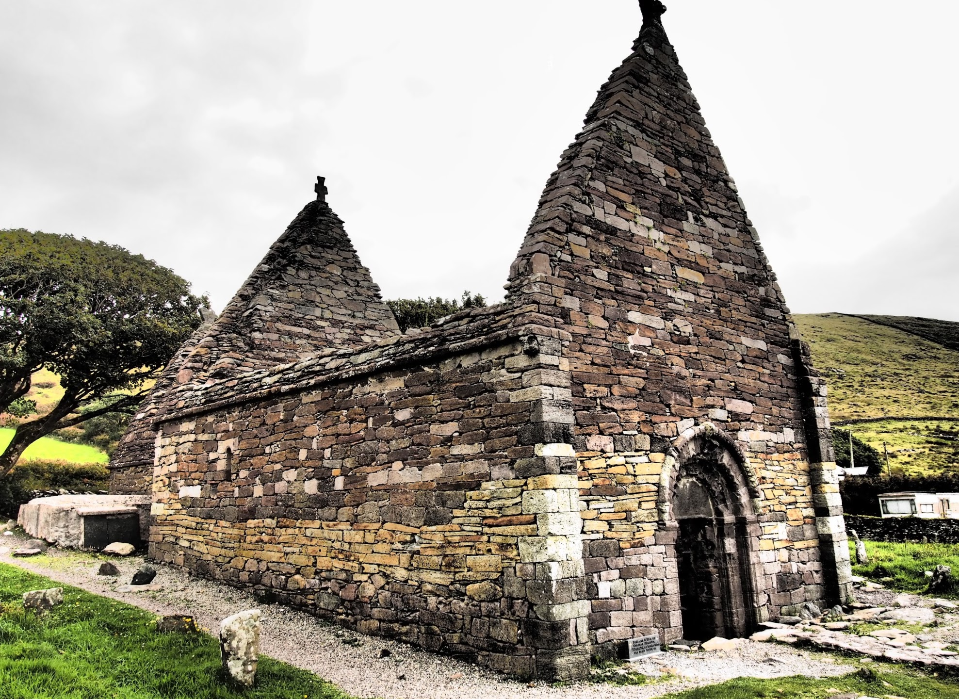 Kilmalkedar Early Medieval Ecclesiastical Site, County Kerry